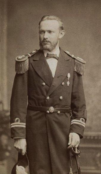 J.A.D Jensen's portrait